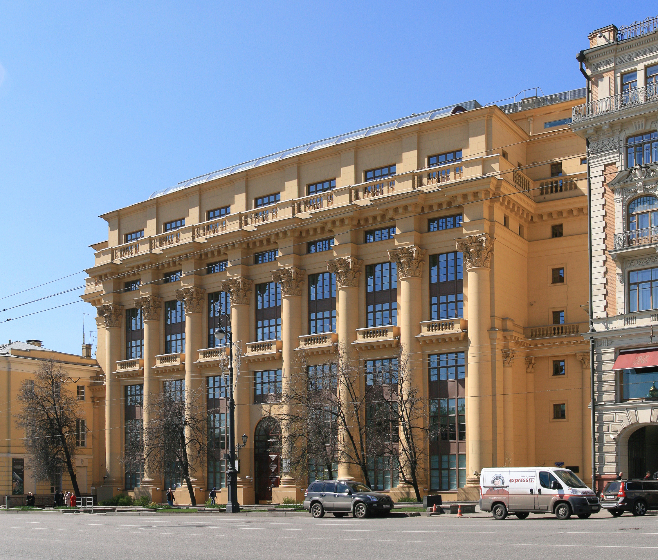 Zholtovsky house, Mokhovaya street, Moscow